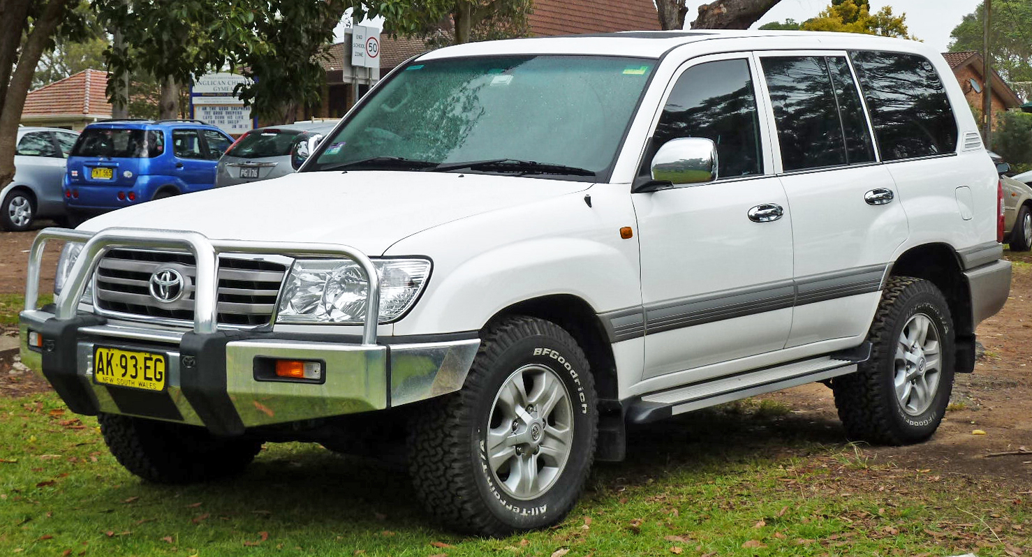 2006 Toyota Land Cruiser (UZJ100R) VX wagon. Photographed in Gymea, New South Wales, Australia.